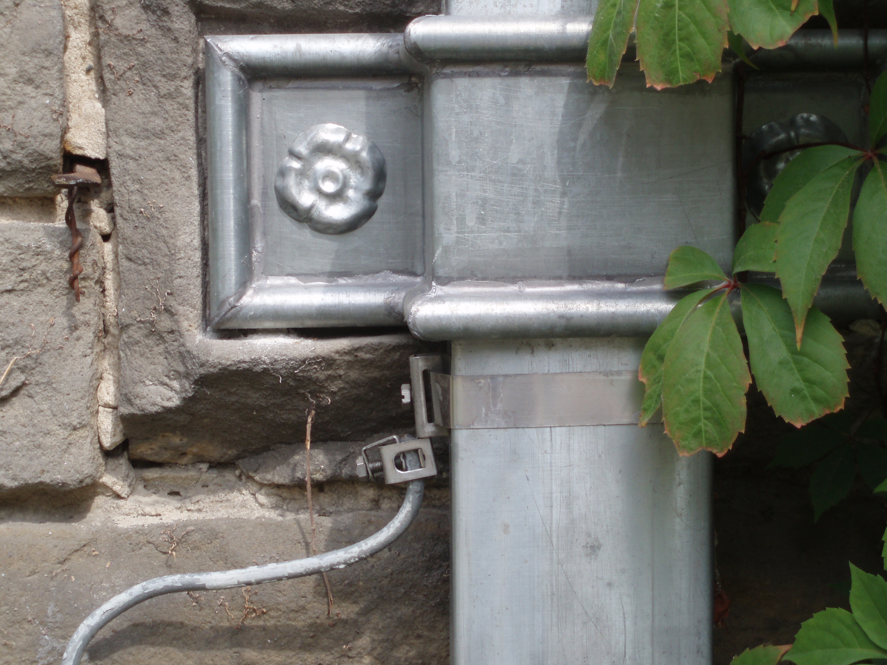 Drain pipe on stone wall close-up.